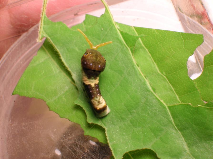 Second-Third Papilio glaucus instar showing osmeterium